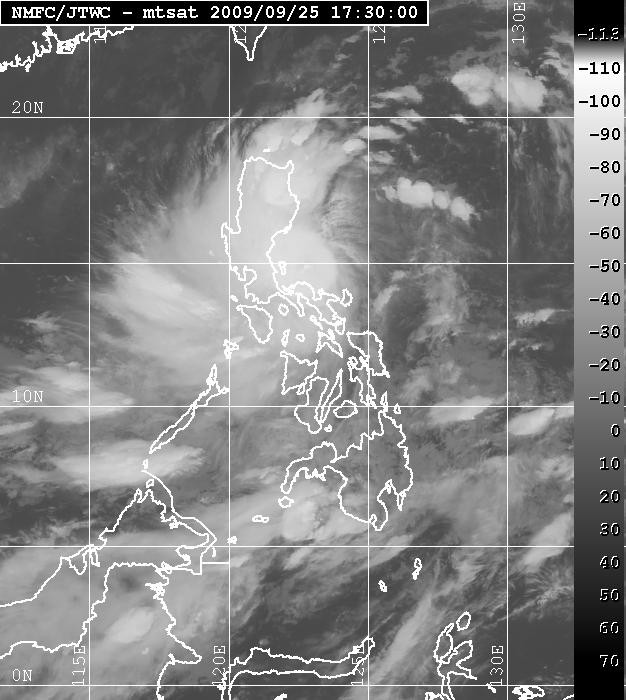 September 25, 2009 infrared image of Tropical Storm Ketsana